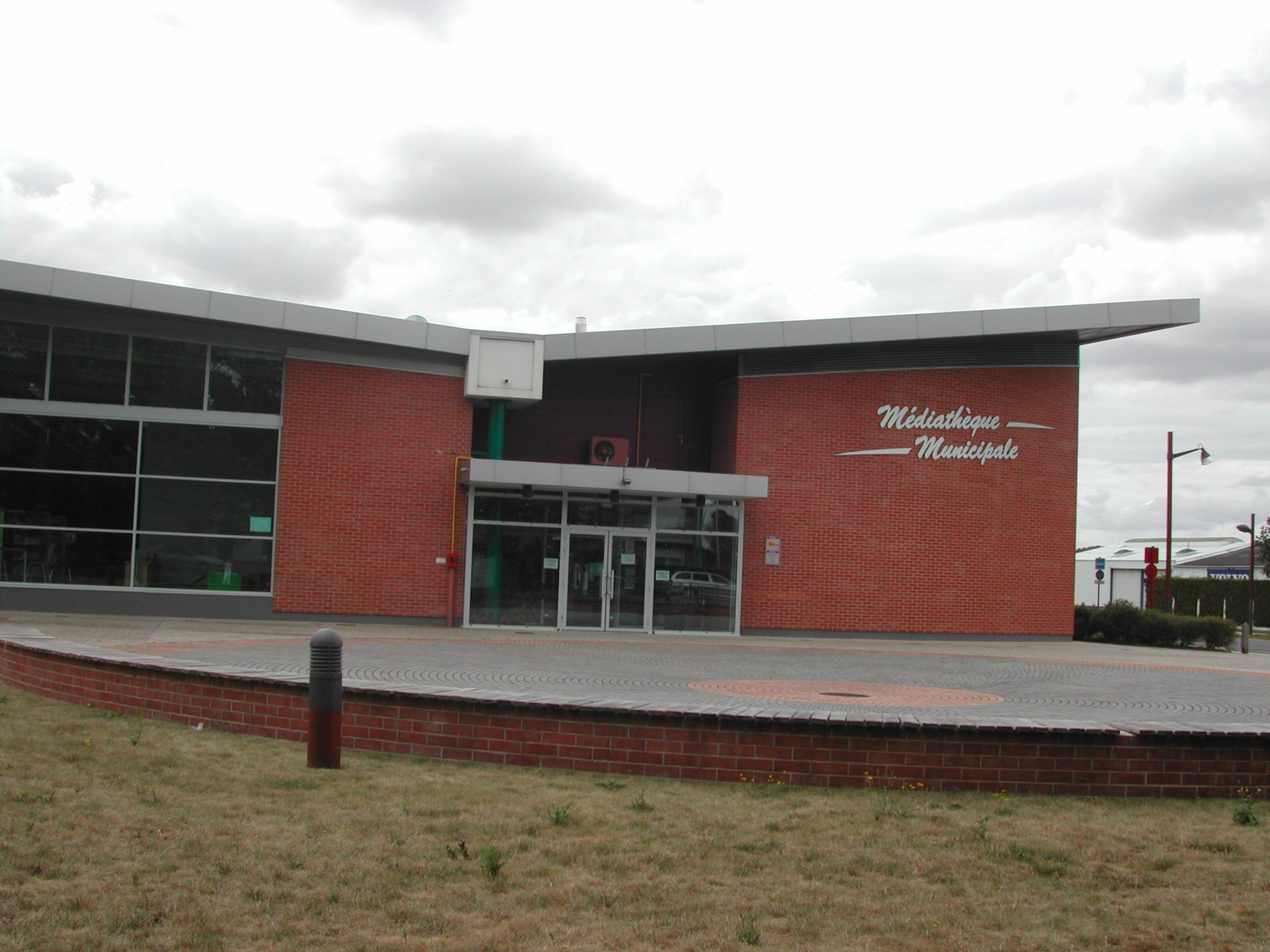 la médiathèque municipale